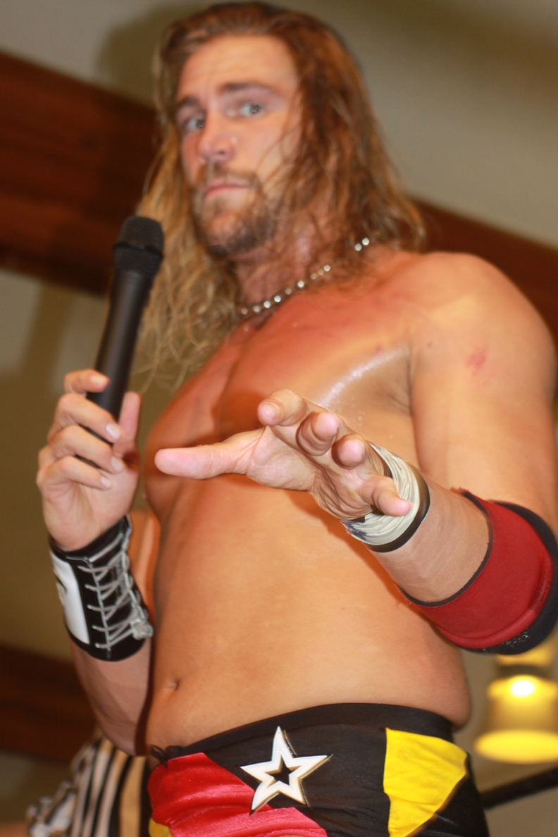 Professional wrestler Chris Hero at Pro Wrestling Guerrilla's Speed of Sound show in Reseda, CA on August 28, 2009.